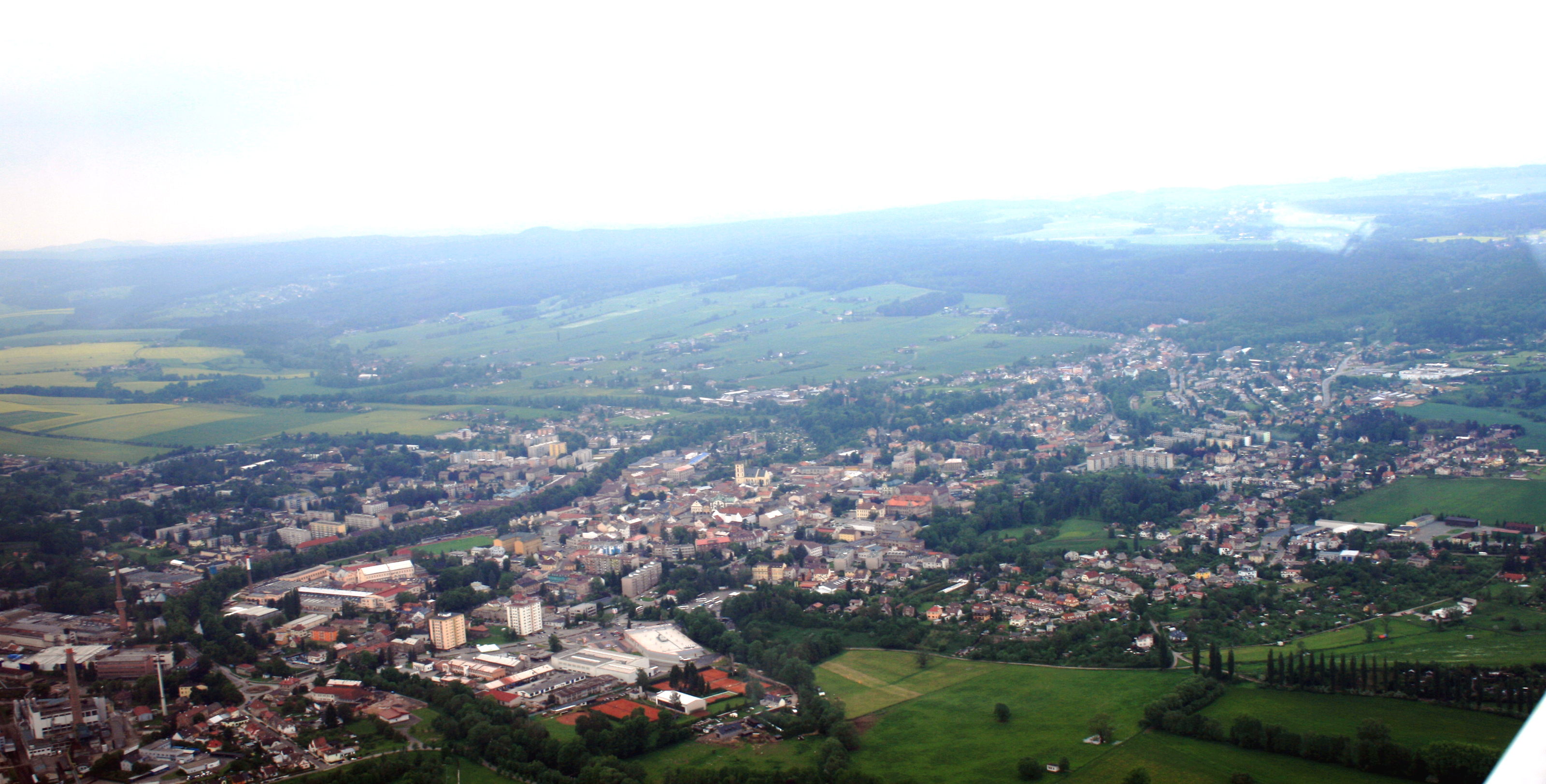 Town Dvůr Králové nad Labem from air, eastern Bohemia, Czech Republic